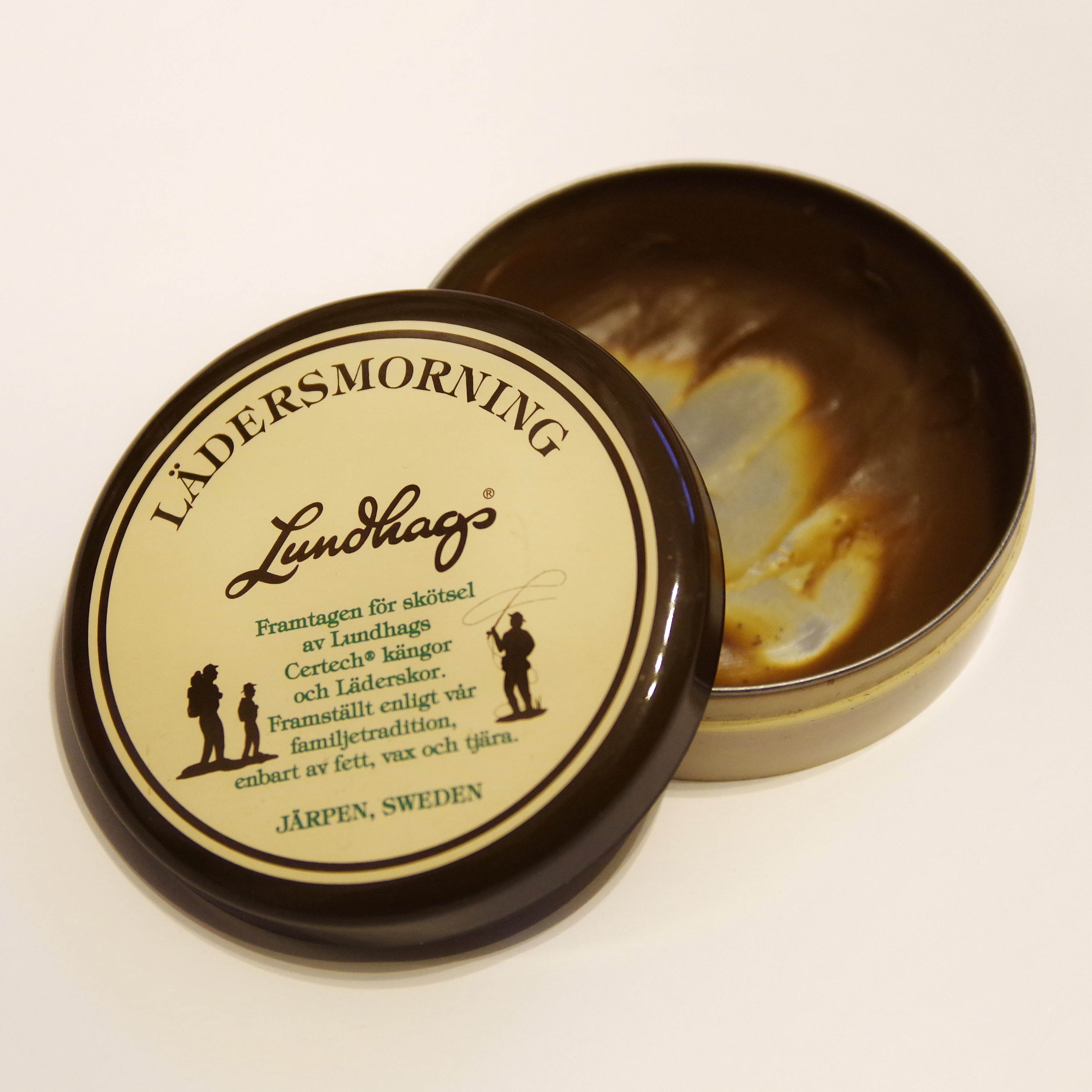 Leather grease of Lundhags (Sweden)